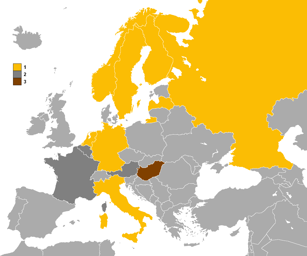 European Allround Speed Skating Medals